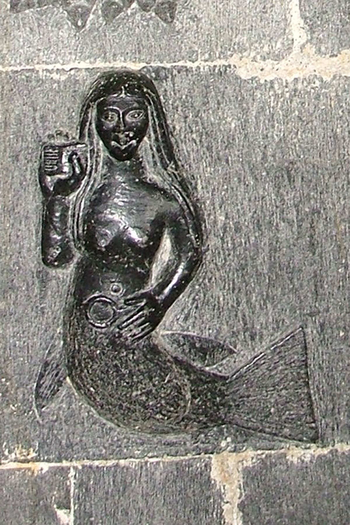 A crop of Clonfert mermaid & angels 2006-06-21.JPG. From Clonfert Cathedral, Clonfert, County Galway, Ireland.